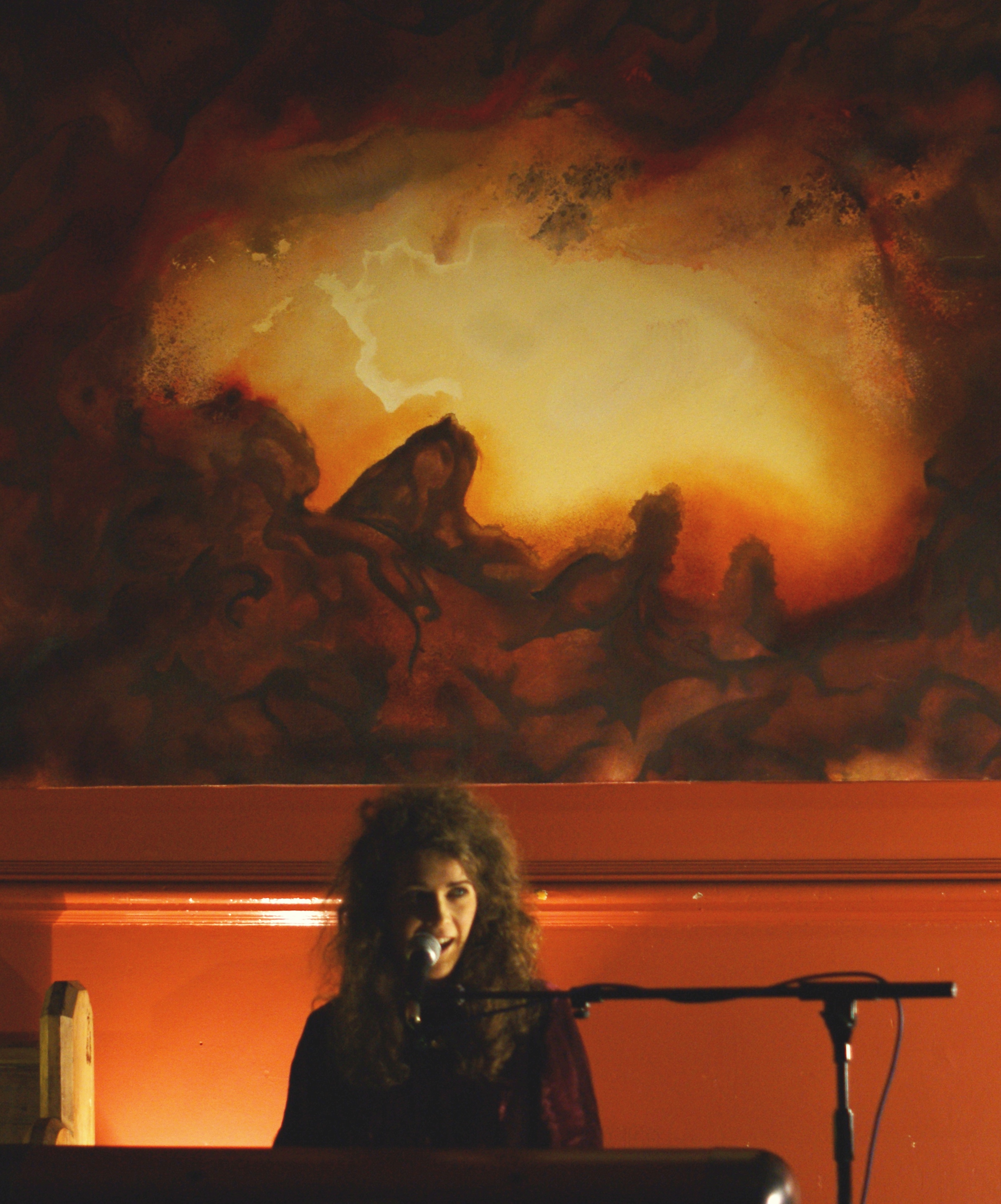 Rae Morris at Kro Bar, Manchester, on Tuesday the 18th of January 2011.